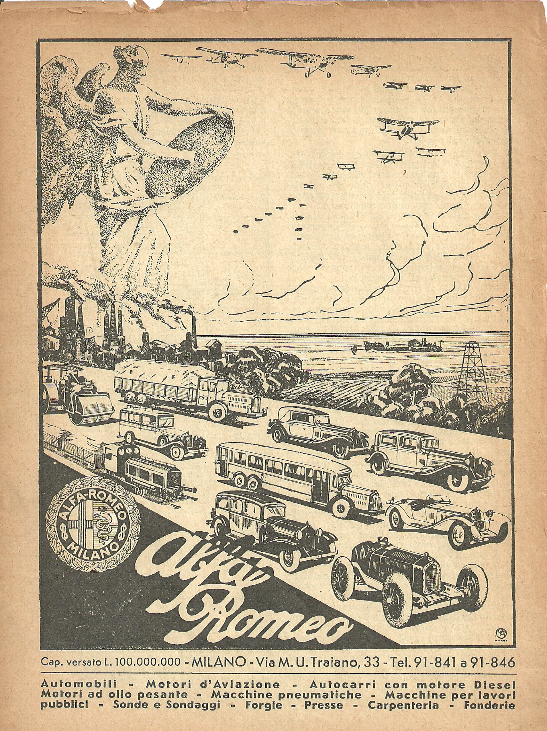 A "réclame" of Alfa Romeo (1932), Milano